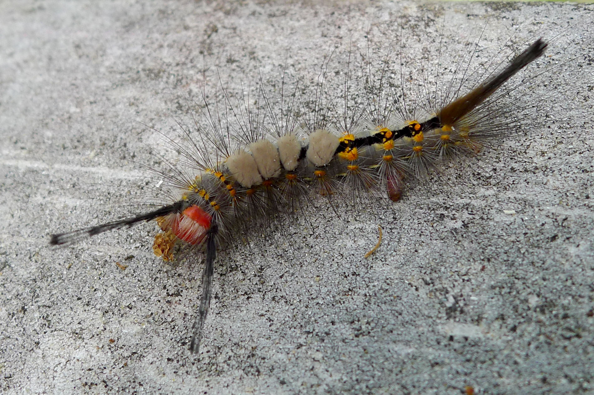 Jekyll Island , Georgia